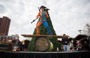 Christmas Village Artist